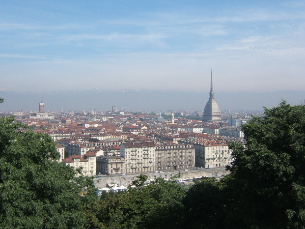 Torino (Italy), view from Monte dei Cappuccini